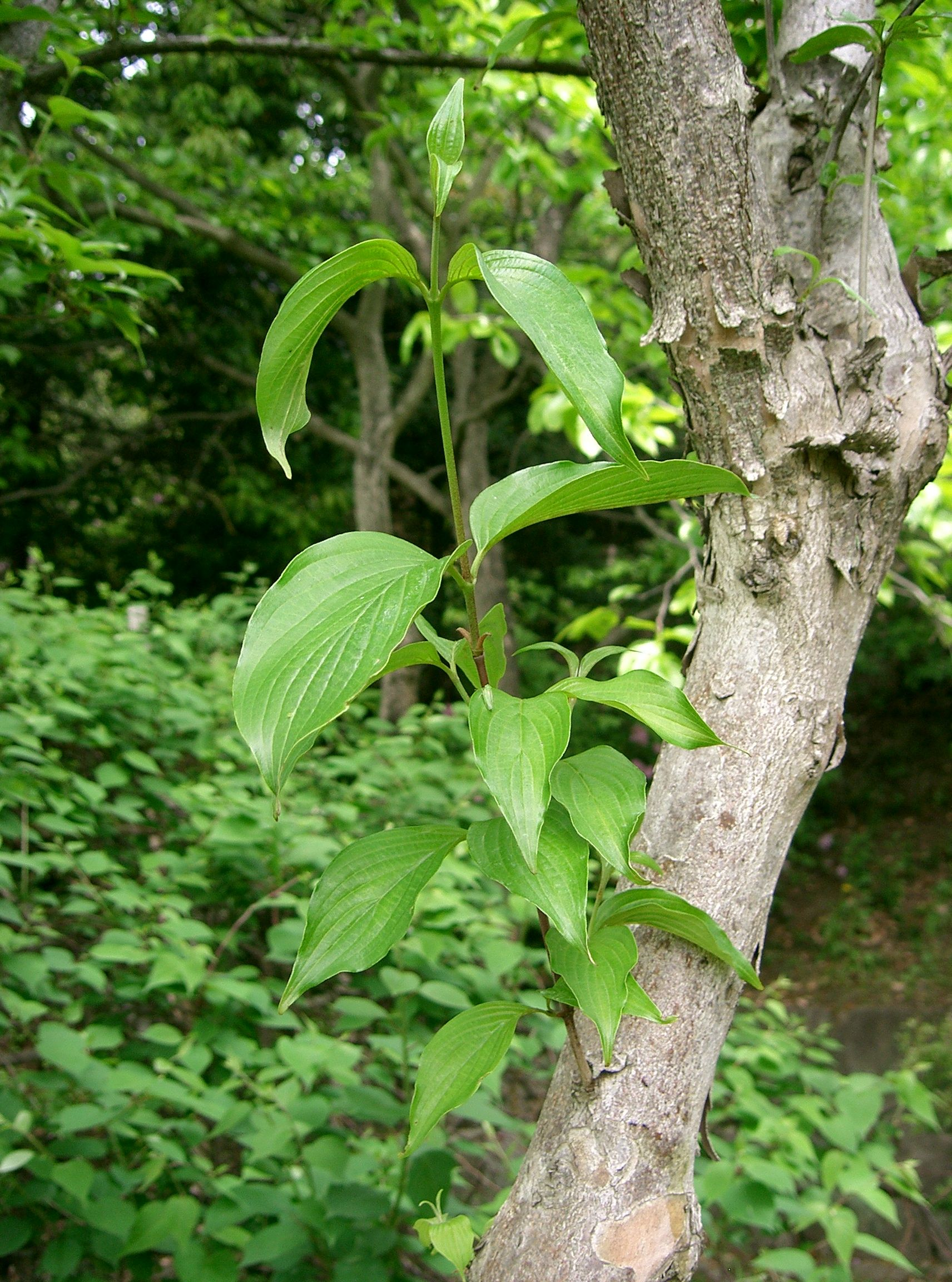 Cornus officinalis